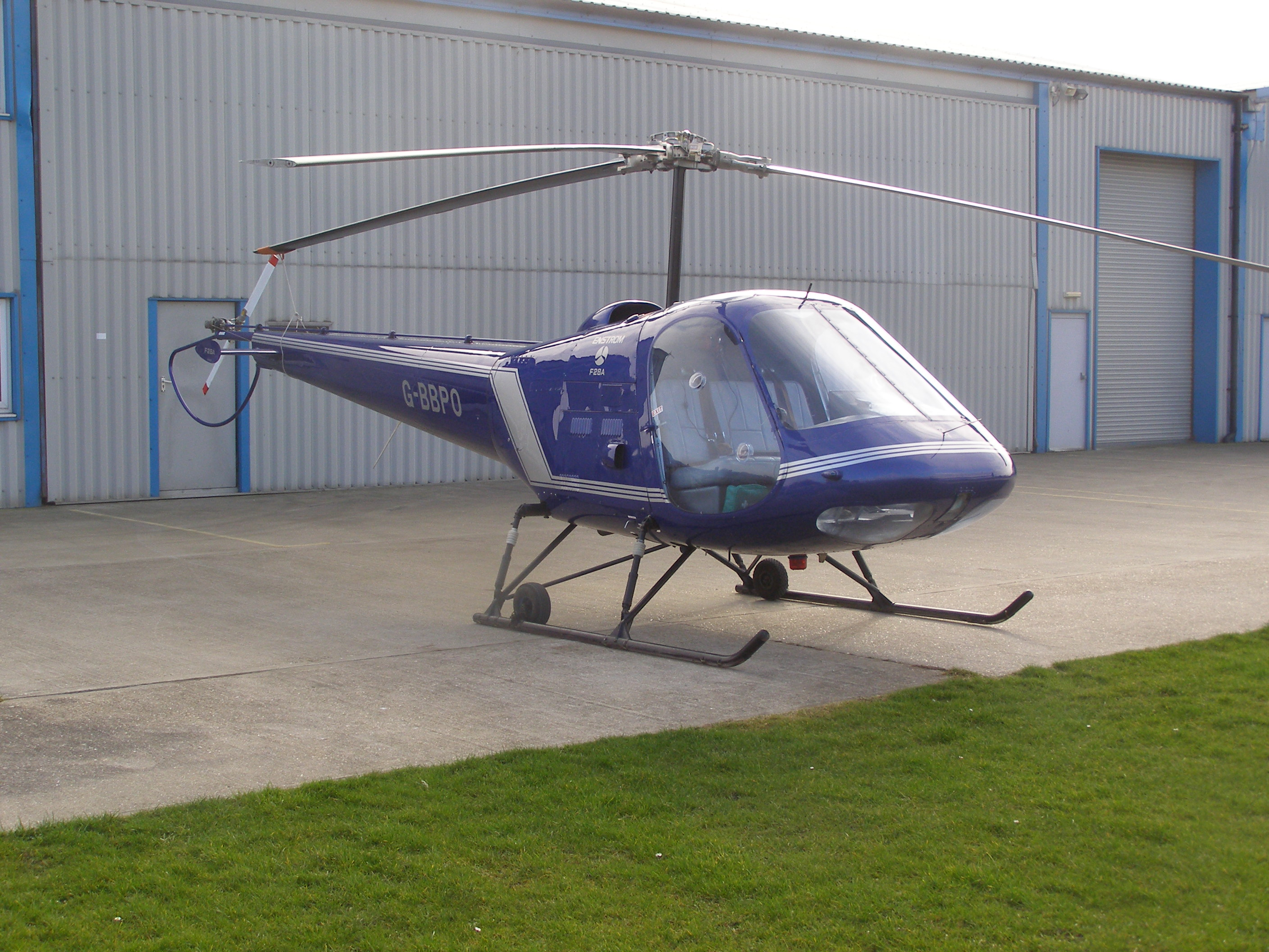 Enstrom F-28A registered G-BBPO at Shoreham Airport, England (G-BBPO was built in 1973 with serial number 176)